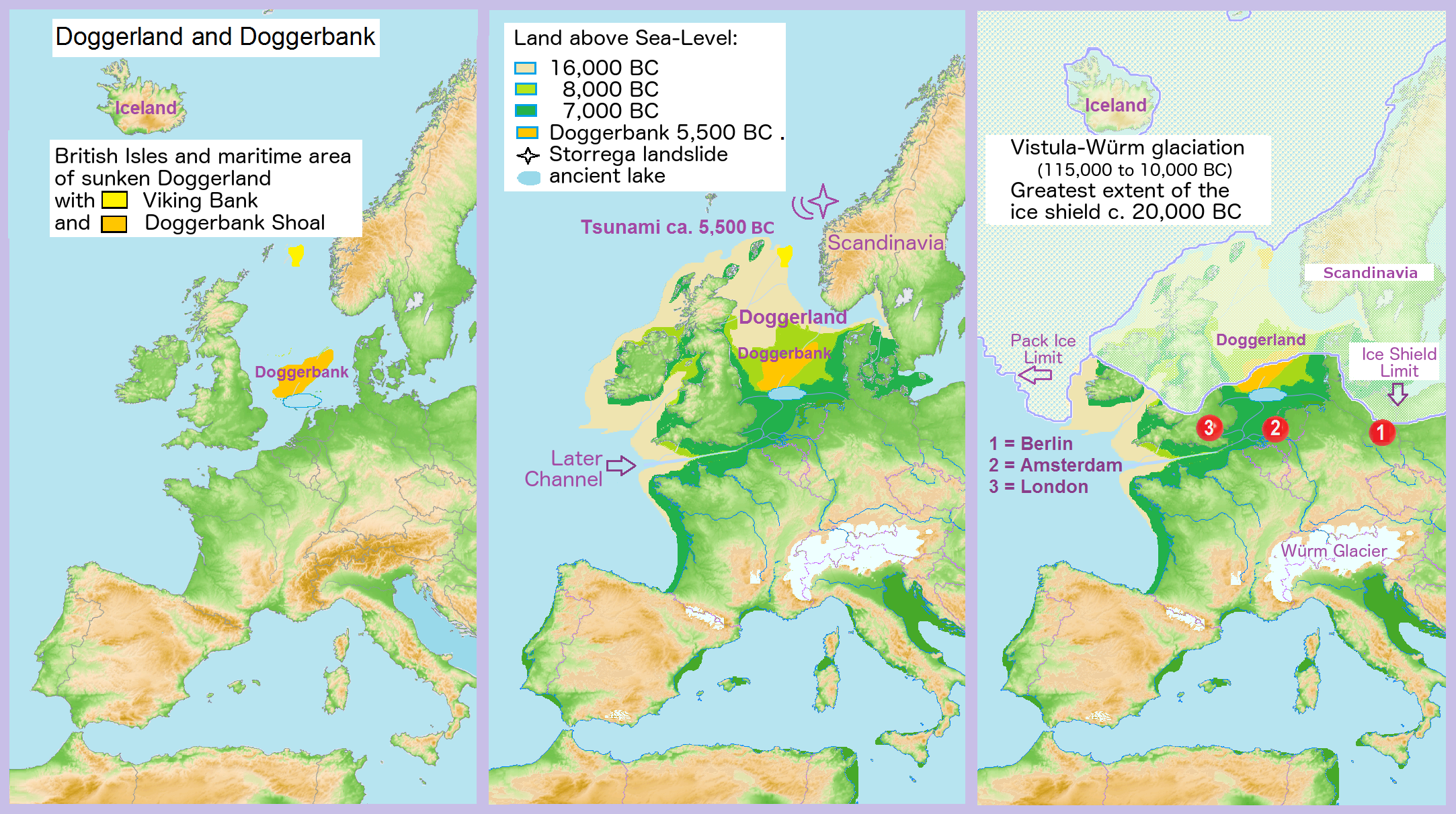 Land bridge between the mainland and Britain - Doggerland and Dogger Bank. Comparison of the geographical situation in 2000 to the late years of the Vistula-Würm Glaciation. Translation from German into English of using GIMP (XCF file available for use in further translations).